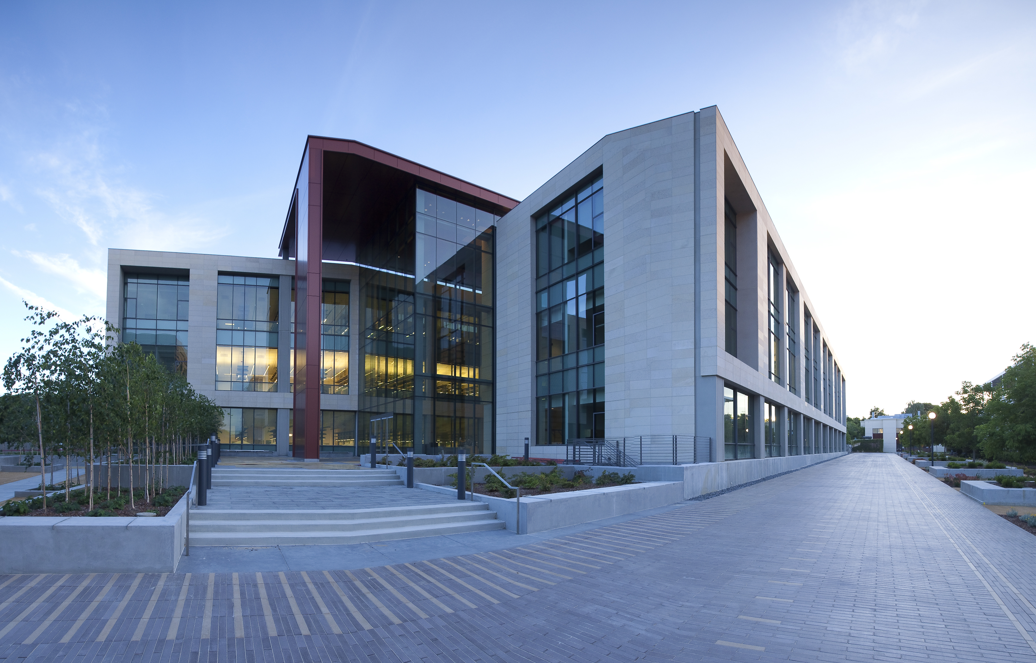 The Lorry I. Lokey Building Stem Cell Research Building at Stanford University School of Medicine.